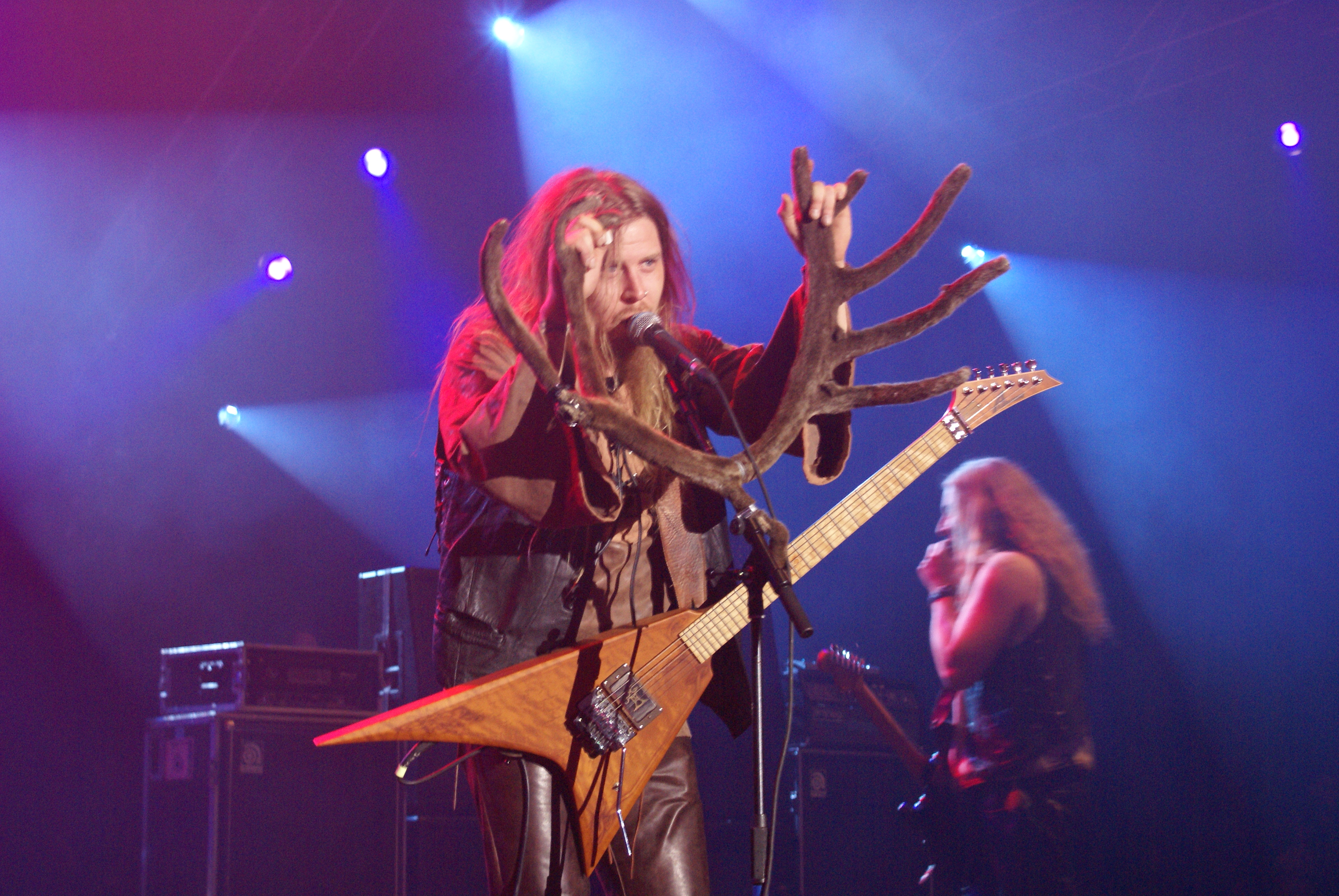 Jonne Järvelä from Korpiklaani during Metalmania 2007 festival